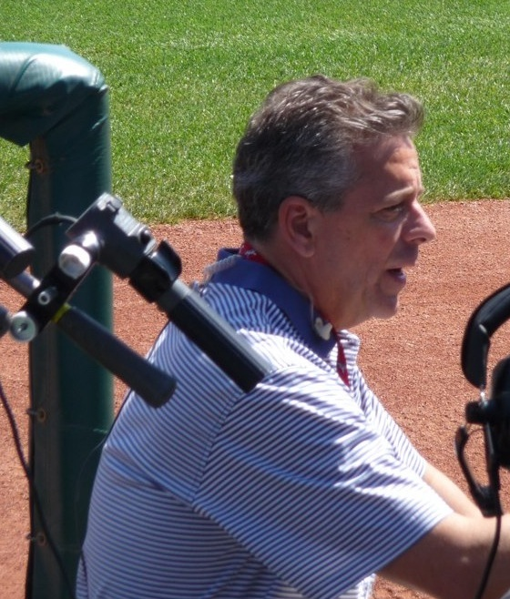 "Hanging pregame with one of the camera operators. Loved Thom's demeanor around the crew and the fans."